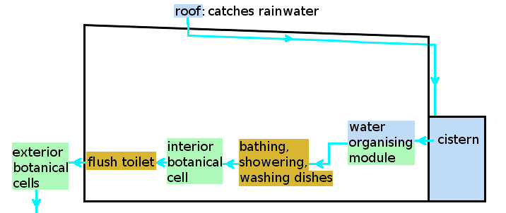 A schematic of the water system used in many earthships . Clean rainwater is used throughout all of the house's domestic equipment in a particular order (bathtub/shower, sink/dishwasher, and then flush toilet). Owing to the order, which pollutes the water in a staged manner, the water is much more effectively used. The replacement of the flush toilet with a composting toilet would be even better, but the system presented here is more easily adaptable to existing houses since most people already own and use a flush toilet. Note that the water-organising module is composed of a filter (depicted in green) and a pump (depicted in blue). The parts that pollute the water are depicted in brown.